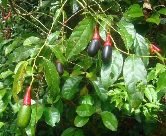 One of the species whose fruit are known as Aguacatillos. Mainly found in Costa Rica; photo from near Monteverde. In context at